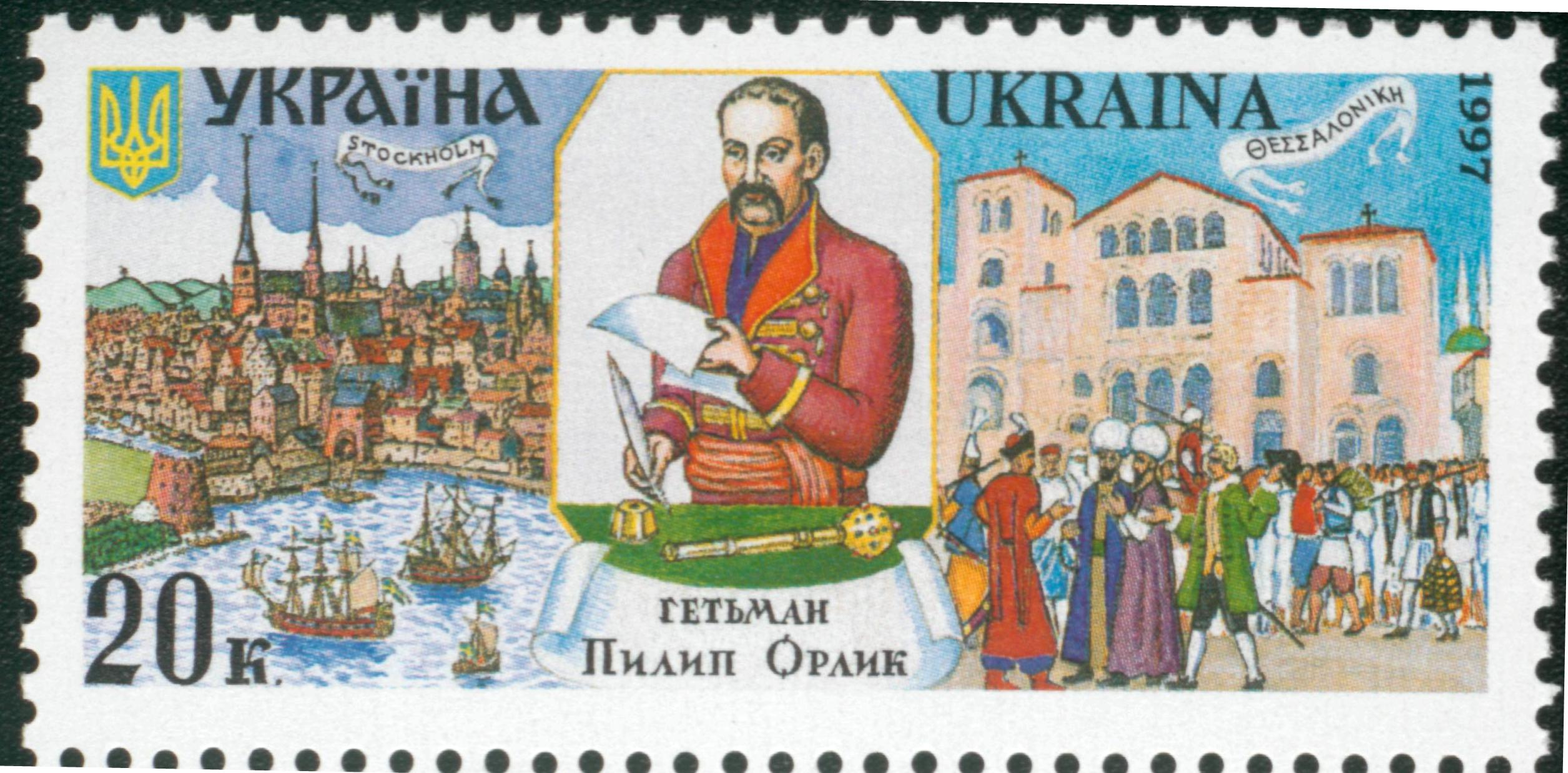 Stamp of Ukraine Филипп Орлик